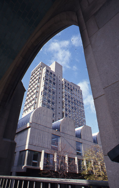 Title: Boston University Creator: Peter H. Dreyer Date: 1975 November Source: Collection 9800.007, Peter H. Dreyer slide collection File name: 9800007_181 Photographer: Peter H. Dreyer Rights: Public Domain, Please credit Peter H. Dreyer Citation: Peter H. Dreyer slide collection, Collection #9800.007, City of Boston Archives, Boston